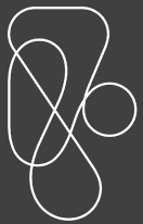 Modified from the original sourced from the official Vekoma website to add a background colour.